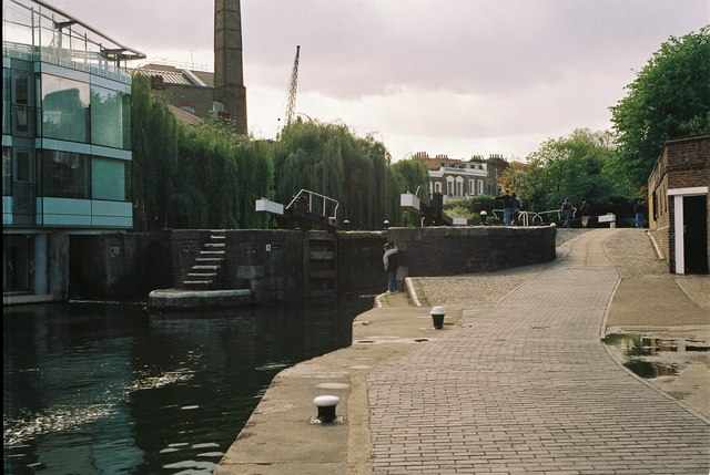 Regent's Canal - City Road Lock. Looking west to the lower lock gates